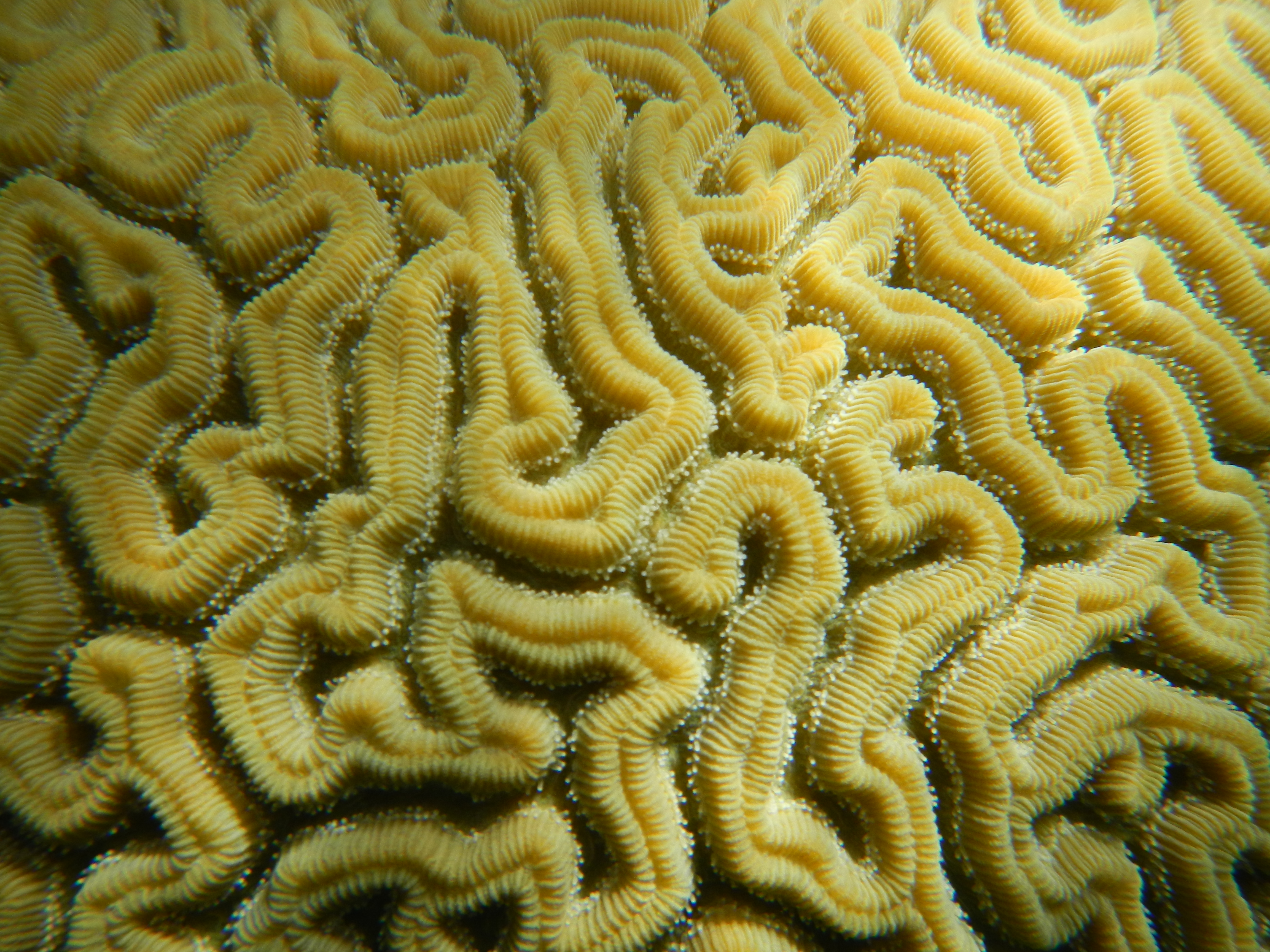 Brain coral, Diploria labyrinthiformis under the Old Pier in Esperanza, Vieques, Puerto Rico